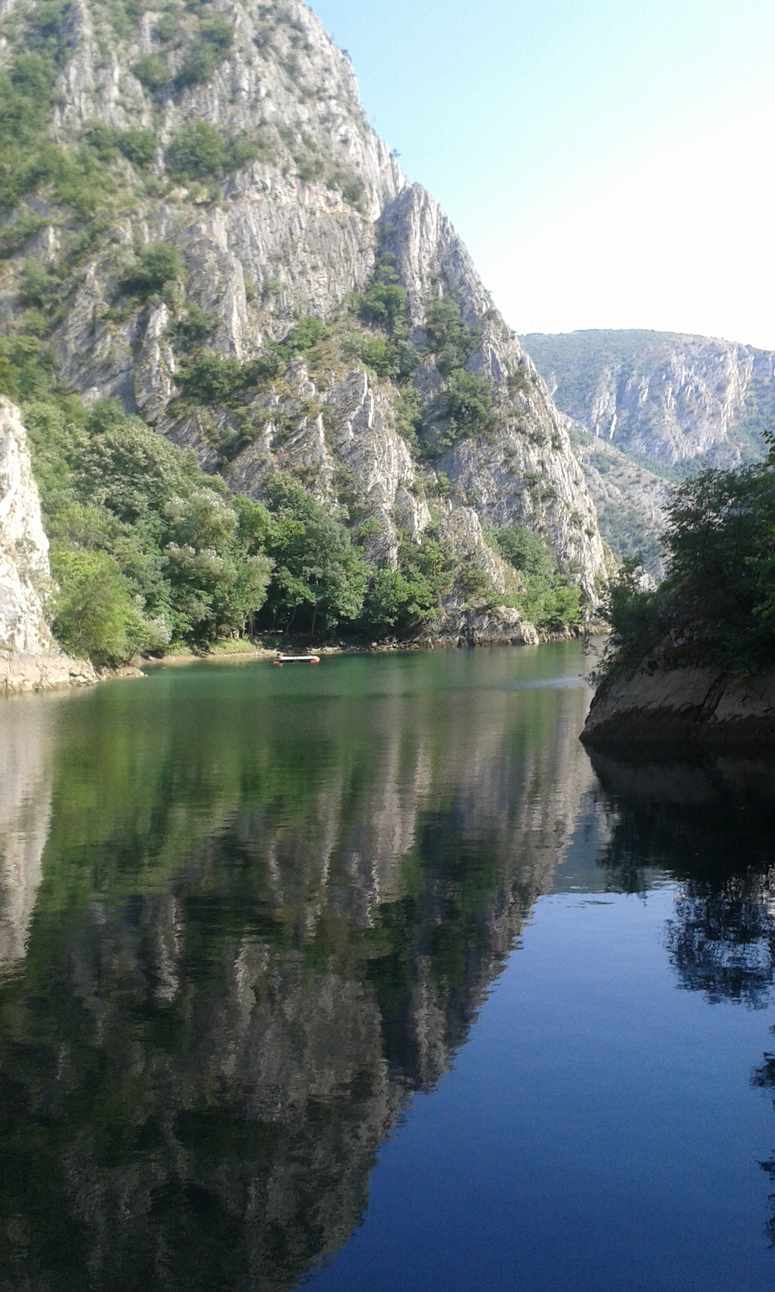 Matka Canyon